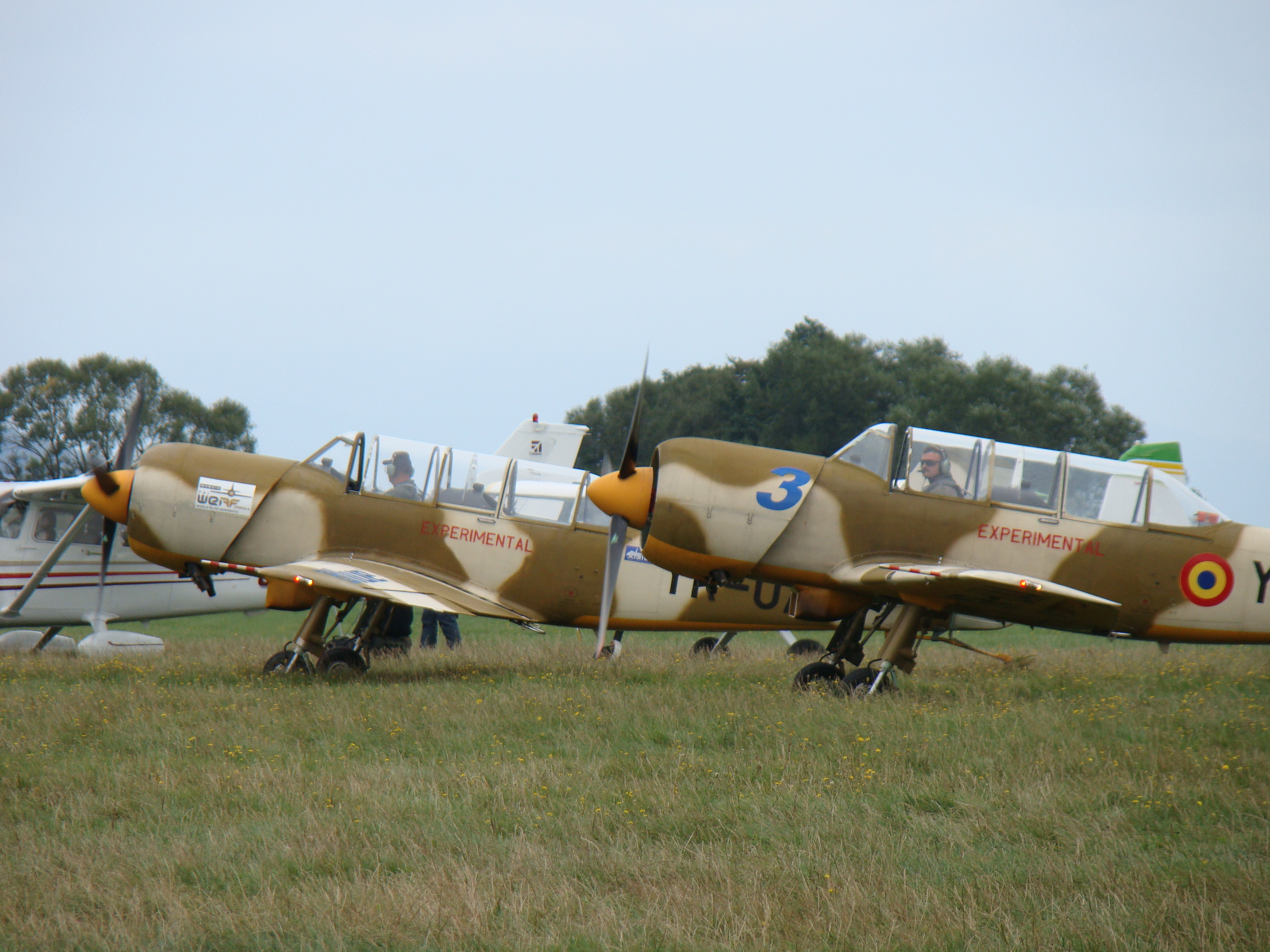 Yak-52 TW (Pilot:Dan Stefanescu, 38 yo), Air Show Bielsko-Biała (2009)